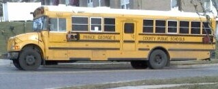 An IC Bus of the CE Series apart of the Prince George's County Public Schools transportation system in Landover Hills off of Maryland Route 450.